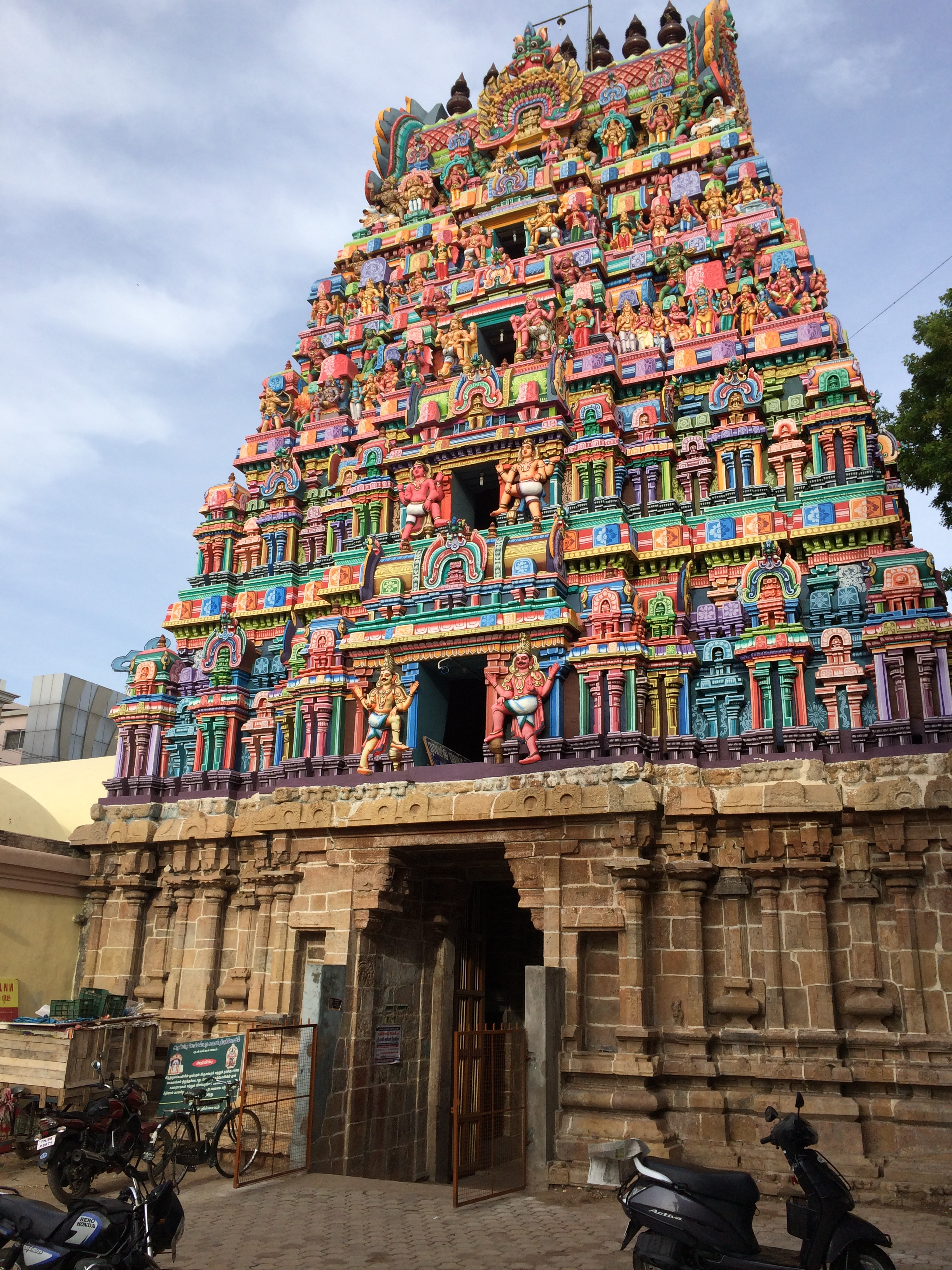 Kumbakonam Someswaran Temple Front gopuram after renovations in the year 2016